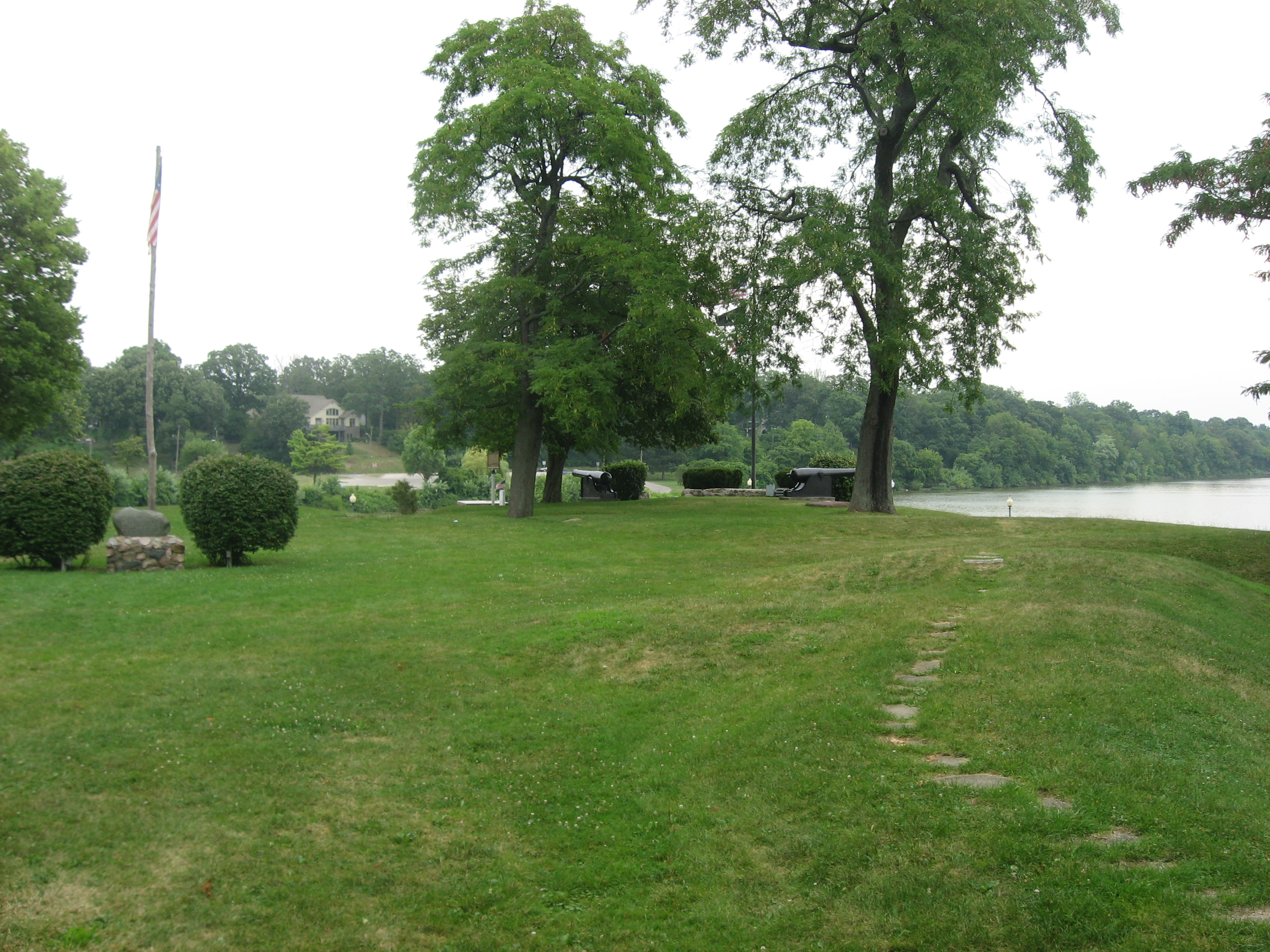 Overview from the south of the site of Fort Defiance, located atop a bluff overlooking the confluence of the Auglaize and Maumee Rivers in Defiance, Ohio, United States. Built in 1794, the fort served as U.S. Army headquarters before the Battle of Fallen Timbers. Today, the fort site is a park; it is listed on the National Register of Historic Places.